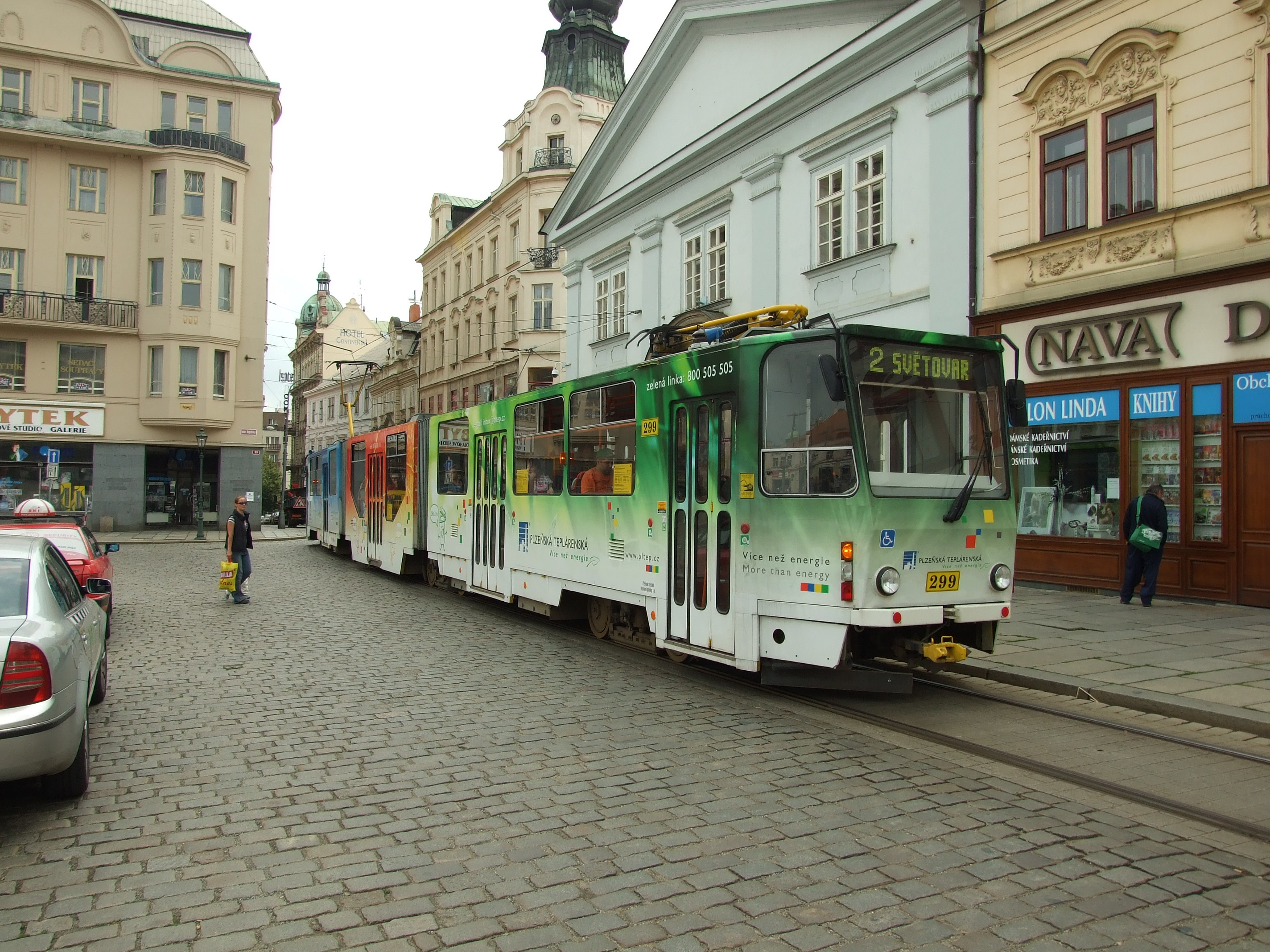 110th anniversary of public transport in Plzeň, Plzeň Region, CZ. KT8 "ordinary" tram passing by